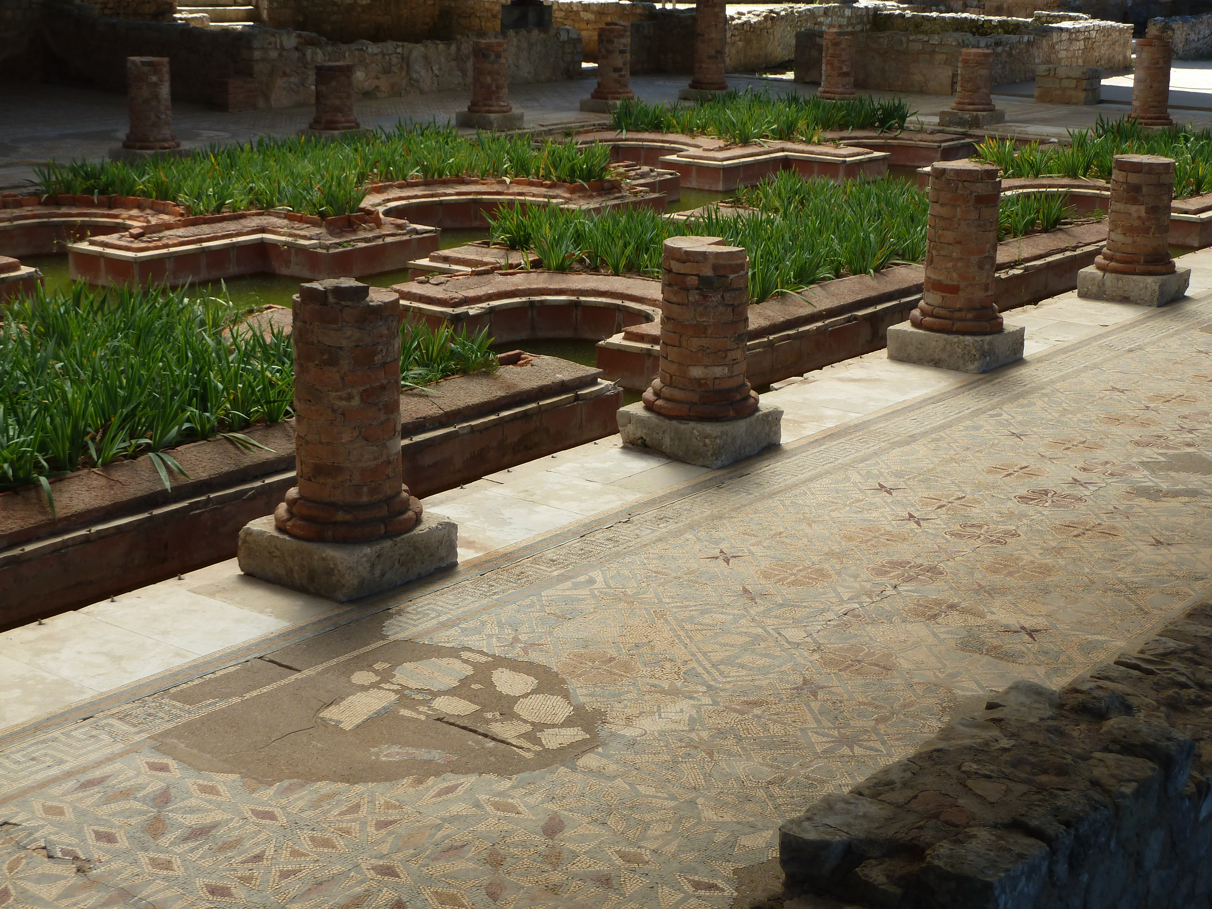 This file was uploaded for Wiki Loves Monuments in Portugal with the unique identifier 70107.